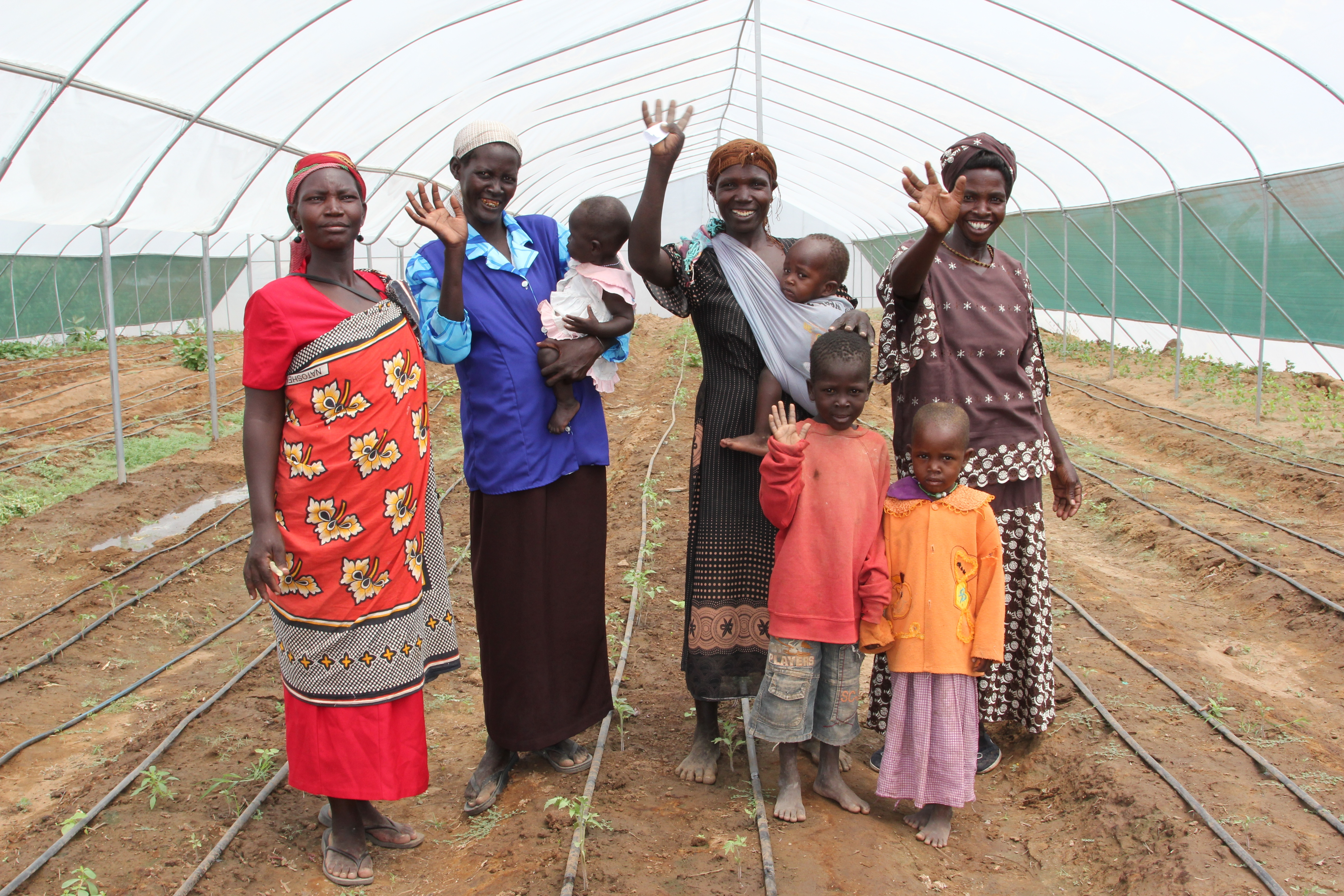 Mother support group leader Gladys Nagilai and other mothers with their budding tomato crop in a greenhouse in Lodwar, northern Kenya. The crops were planted by a mother support group. There are 13 mothers in the group who meet once a month to learn from each other about infant and child nutrition. During their meetings, nutritionists also teach them about infant and child feeding. The support group members actively train other mothers in the community about feeding and nutrition. The greenhouse farming project – which is supported by UNICEF and the IOM with funding from the UK – is underway as a means of improving their household food security. Some of the crops are sold and what’s left over is used by the mothers.